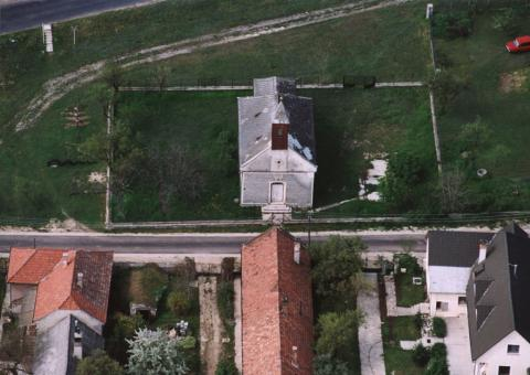 Sóly, Hungary, aerialphotography